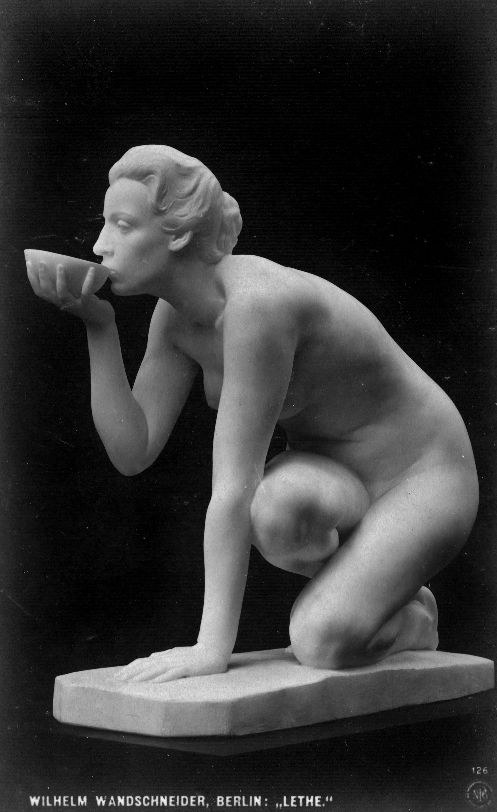 sculpture of "Lethe" by Wilhelm Wandschneider